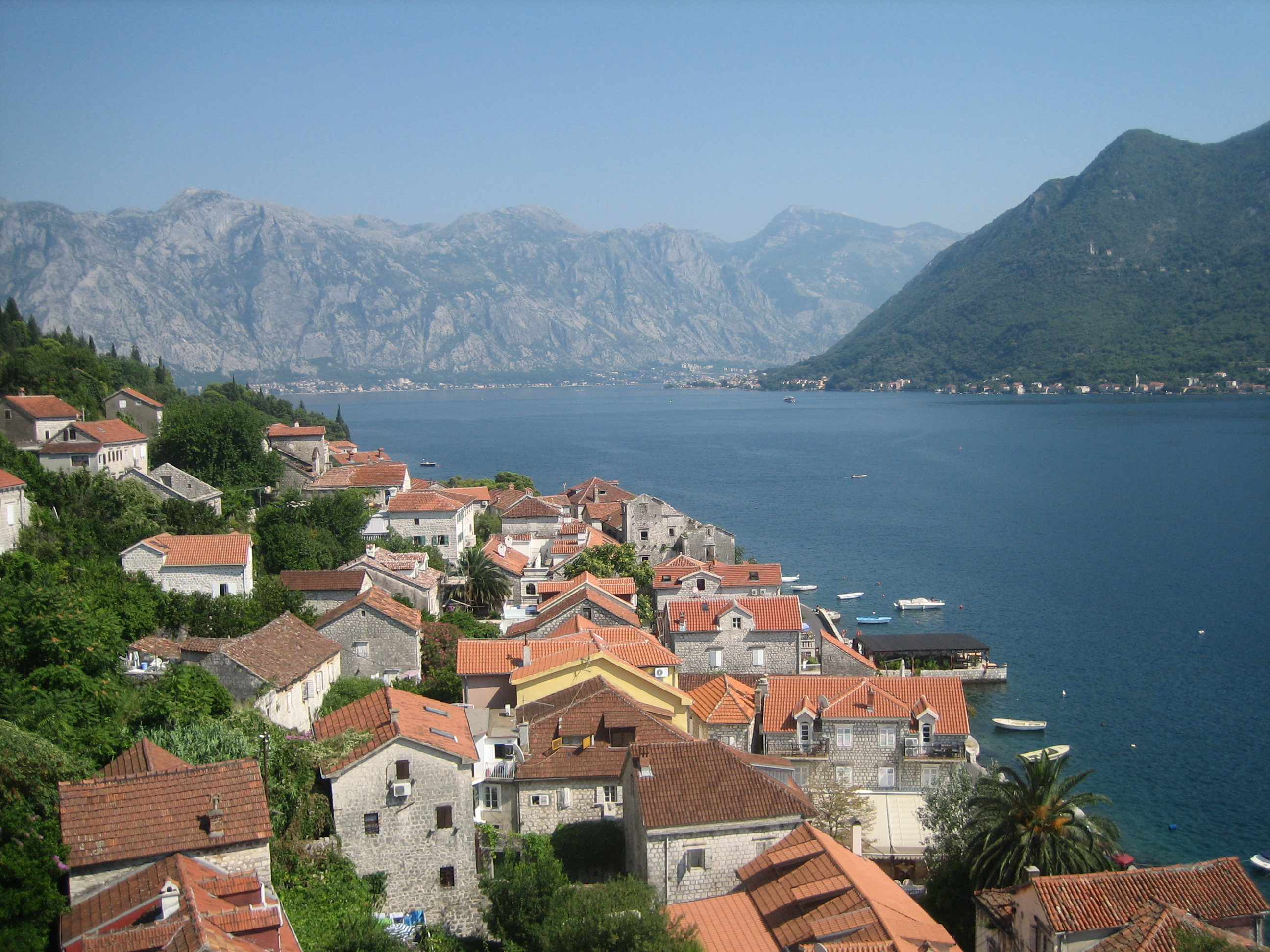 The village of Perast, Kotor, Montenegro, and the surrounding Bay of Kotor as seen from the belfry of its Saint Nicholas' Church